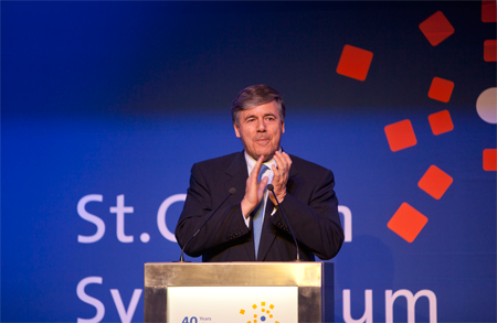 Josef Ackermann in May 2010 at the 40. St. Gallen Symposium at the University of St. Gallen